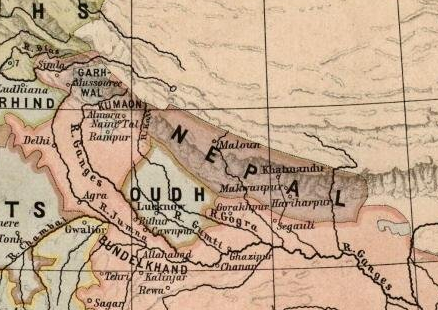 Map of India 1823 from: Joppen, Charles [SJ.] (1907), A Historical Atlas of India for the use of High-Schools, Colleges, and Private Students, London, New York, Bombay, and Calcutta: Longman Green and Co. Pp. 16, 26 maps.